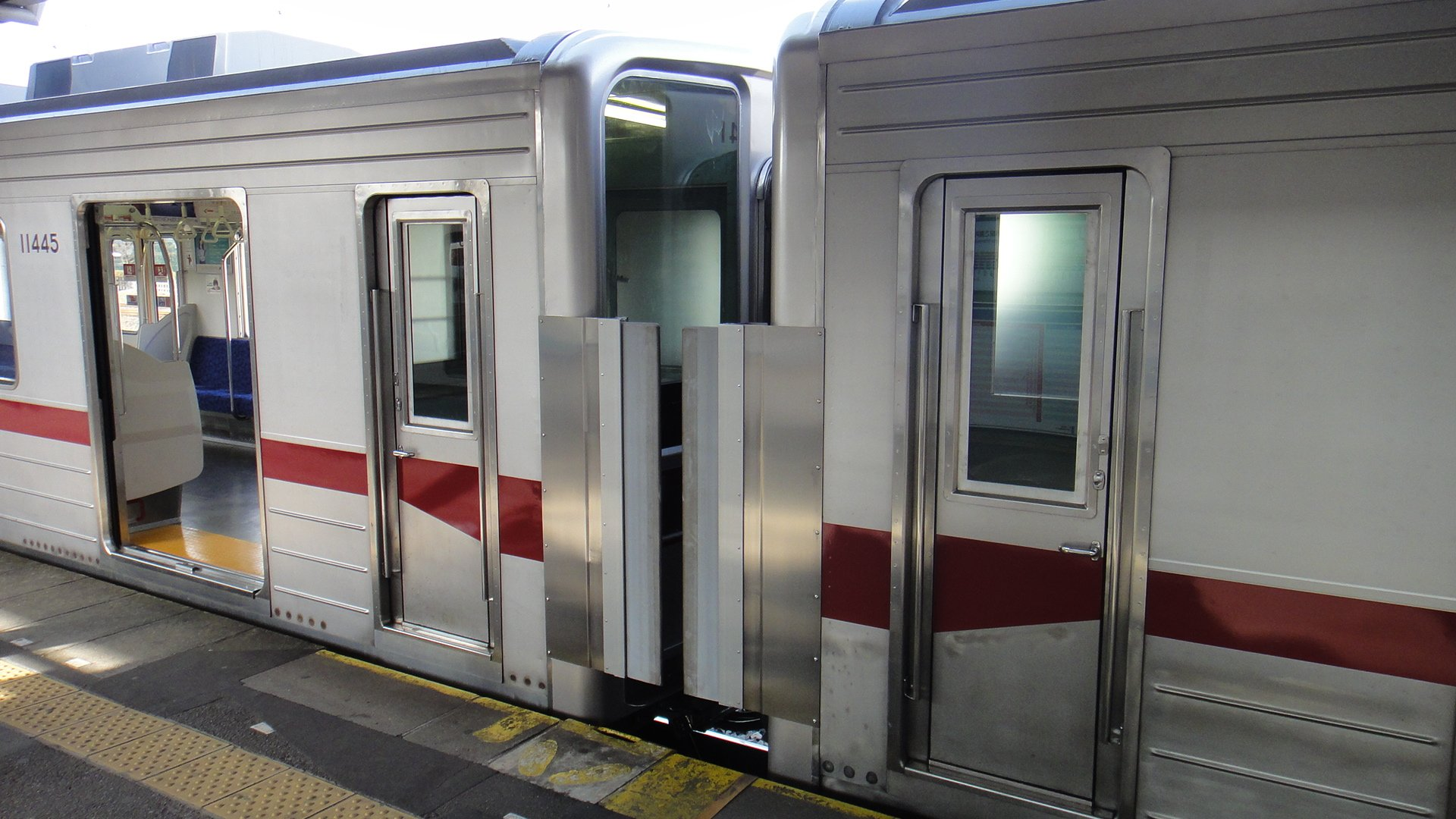 Permanently coupled former driving cabs of two refurbished Tobu Tojo Line 10030 series EMU sets at Ogawamachi Station